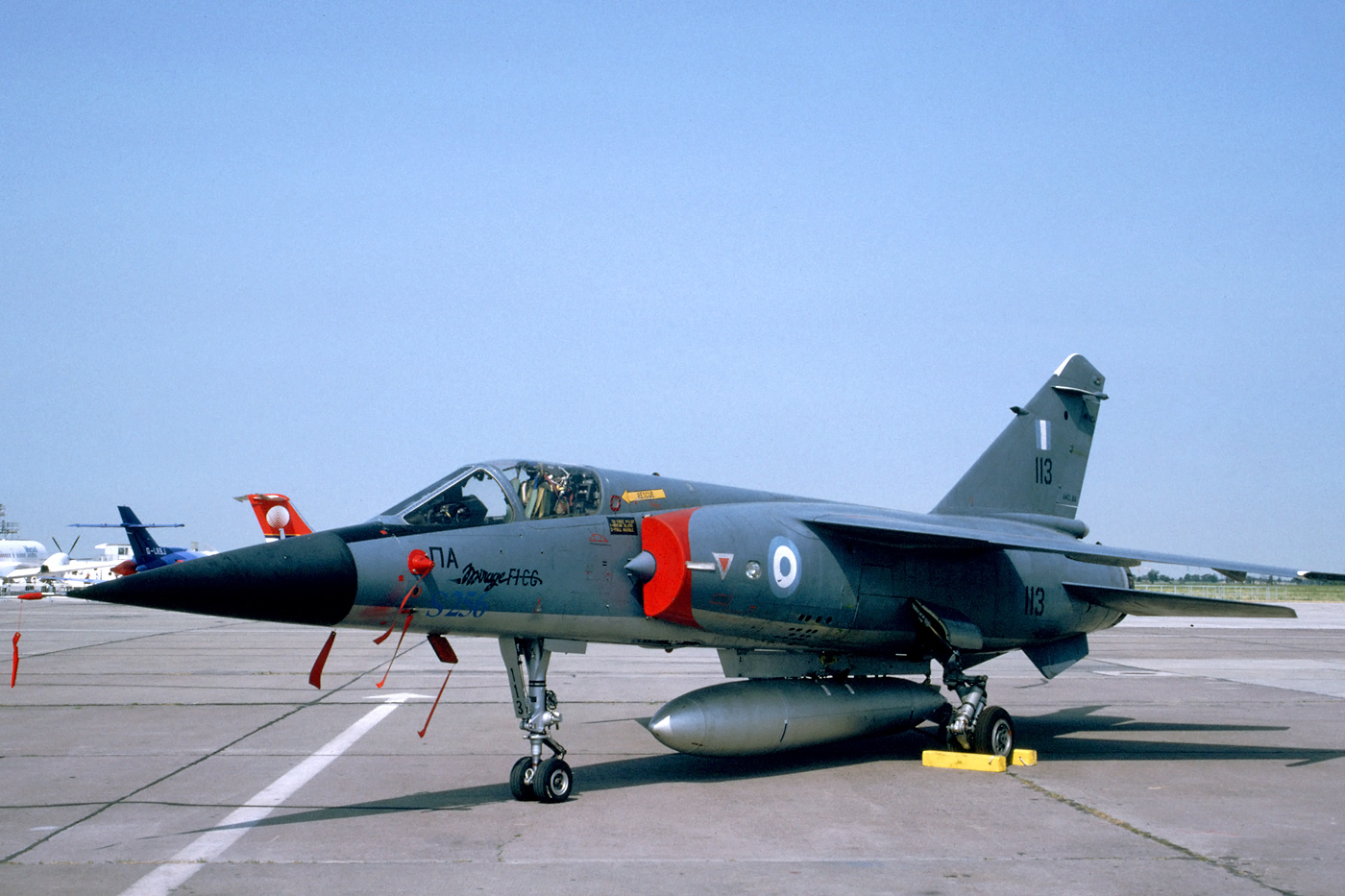 There were some special visitors at the ILA in 1992. Among the factory fresh show models were two very rare Greek Mirage F1CGs.